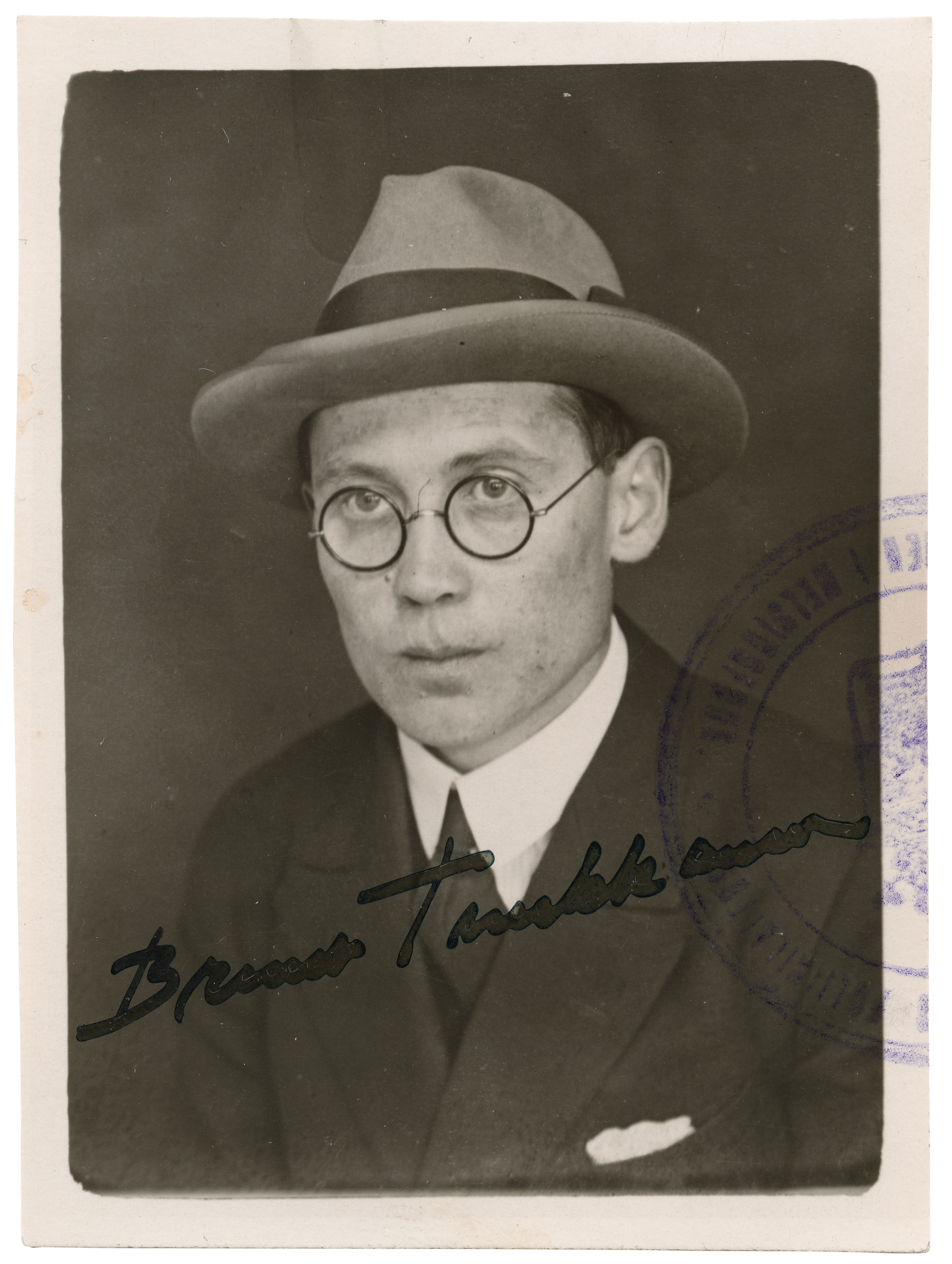 Photograph of the Finnish artist Bruno Tuukkanen (1891–1979).